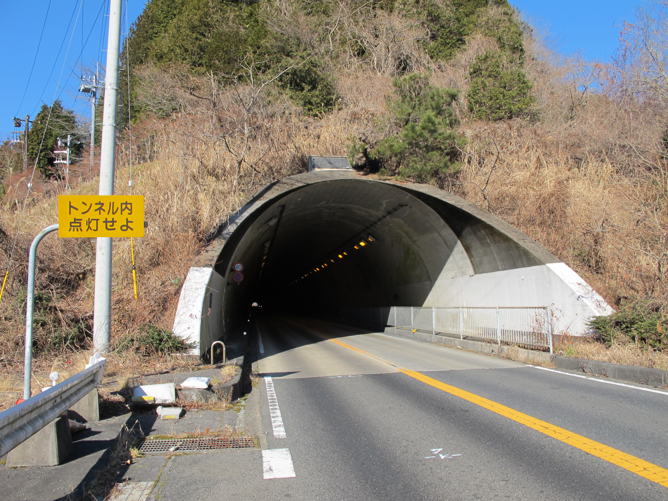 Motoyama Tunnel on the Ibaraki Prefectural Road Route 36 in Hitachi City